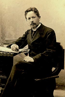 Anton Pavlovich Chekhov